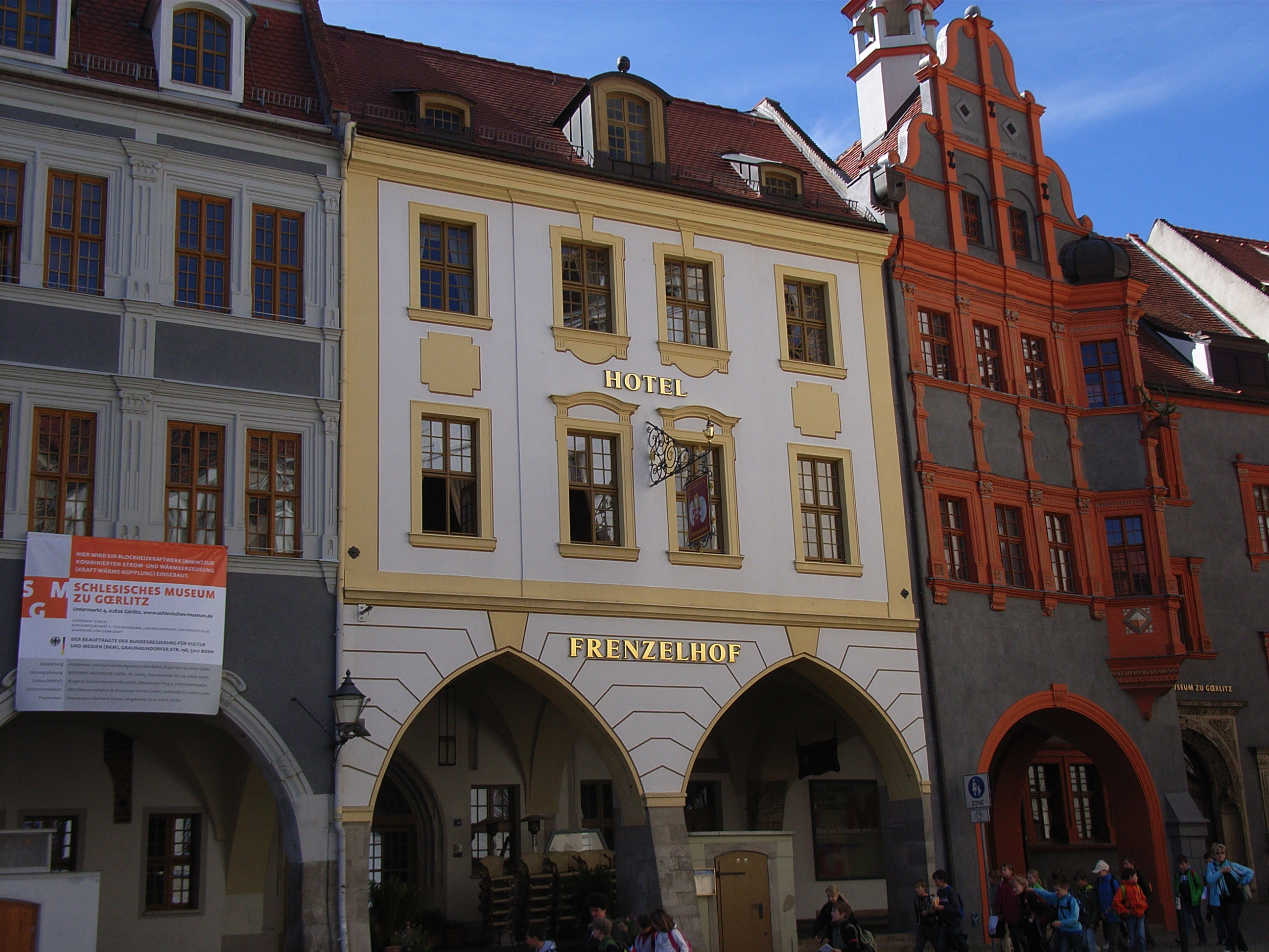 Frenzelhof in Görlitz, Saxony